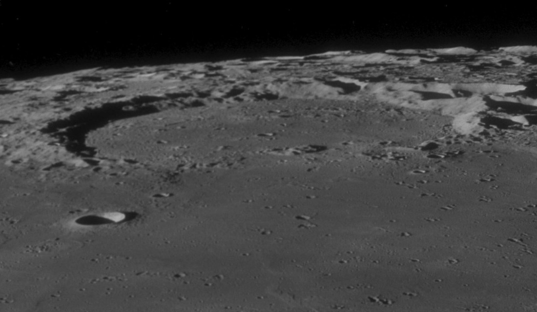 Oblique view of Fracastorius crater, Mare Nectaris, on the moon, facing south.